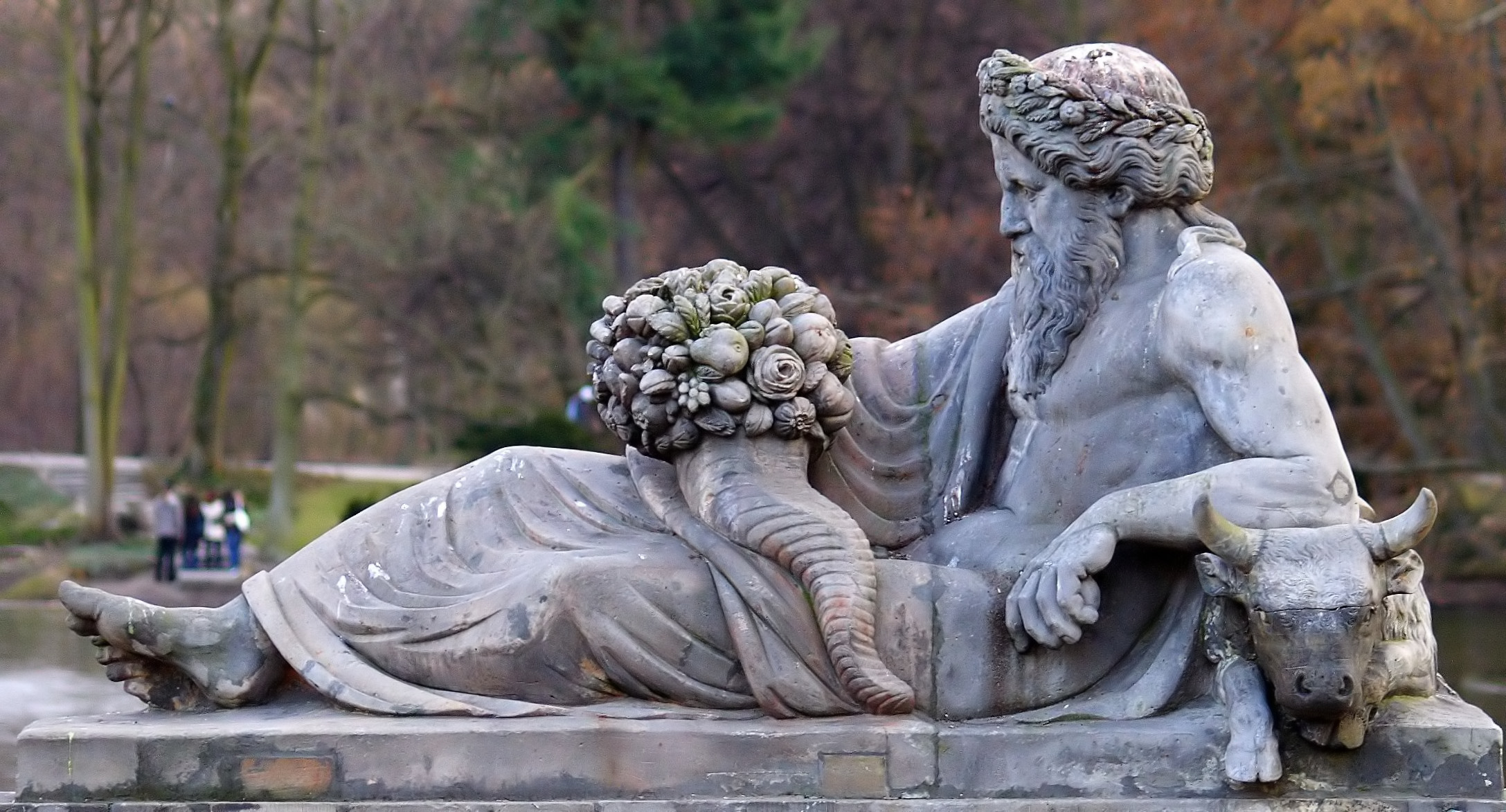 Allegory of the Western Bug River, a statue on the terrace of the Palace on the Island in Łazienki Królewskie, Warsaw. Sculpture by Ludwig Kaufmann (pl. Ludwik Kaufmann) from 1855